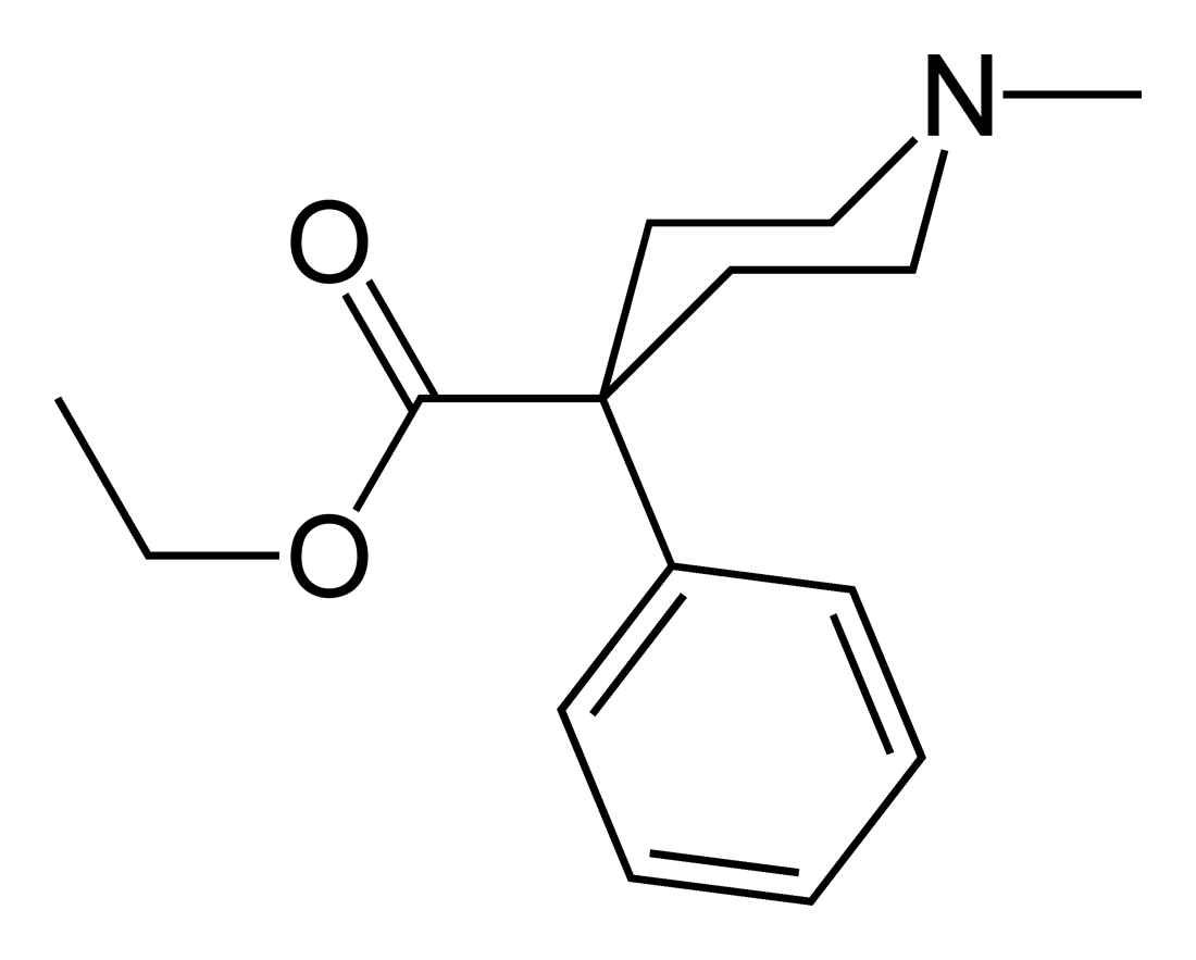 Meperidine (also known as Pethidine or Demerol)